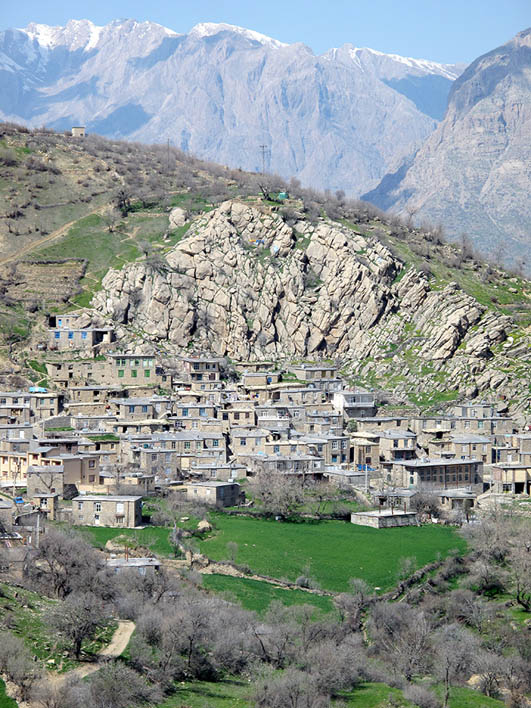 A typical Kurdish village in Hawraman, Kurdistan Province 2015